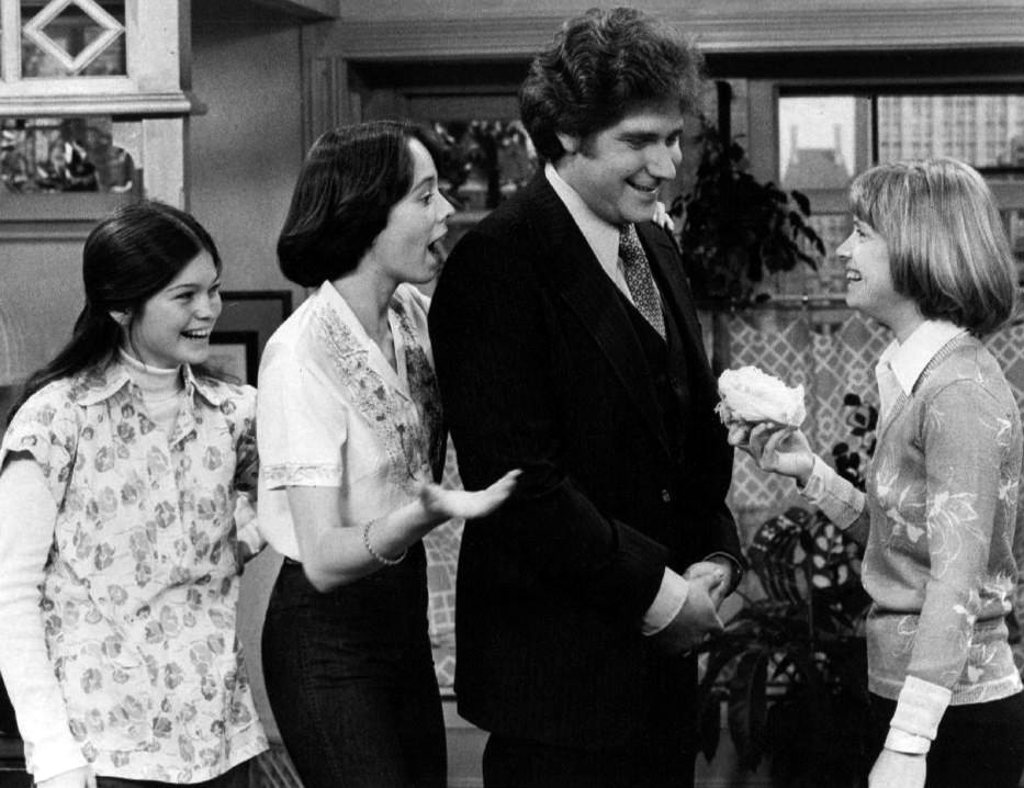 Photo of the main cast of the television program One Day at a Time. From left-Valerie Bertinelli (Barbara), MacKenzie Phillips (Julie), Richard Masur (David Kane), Bonnie Franklin (Ann Romano). Masur played Romano's boy friend in the show's first season.